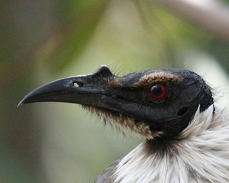 Noisy Friarbird, Australia